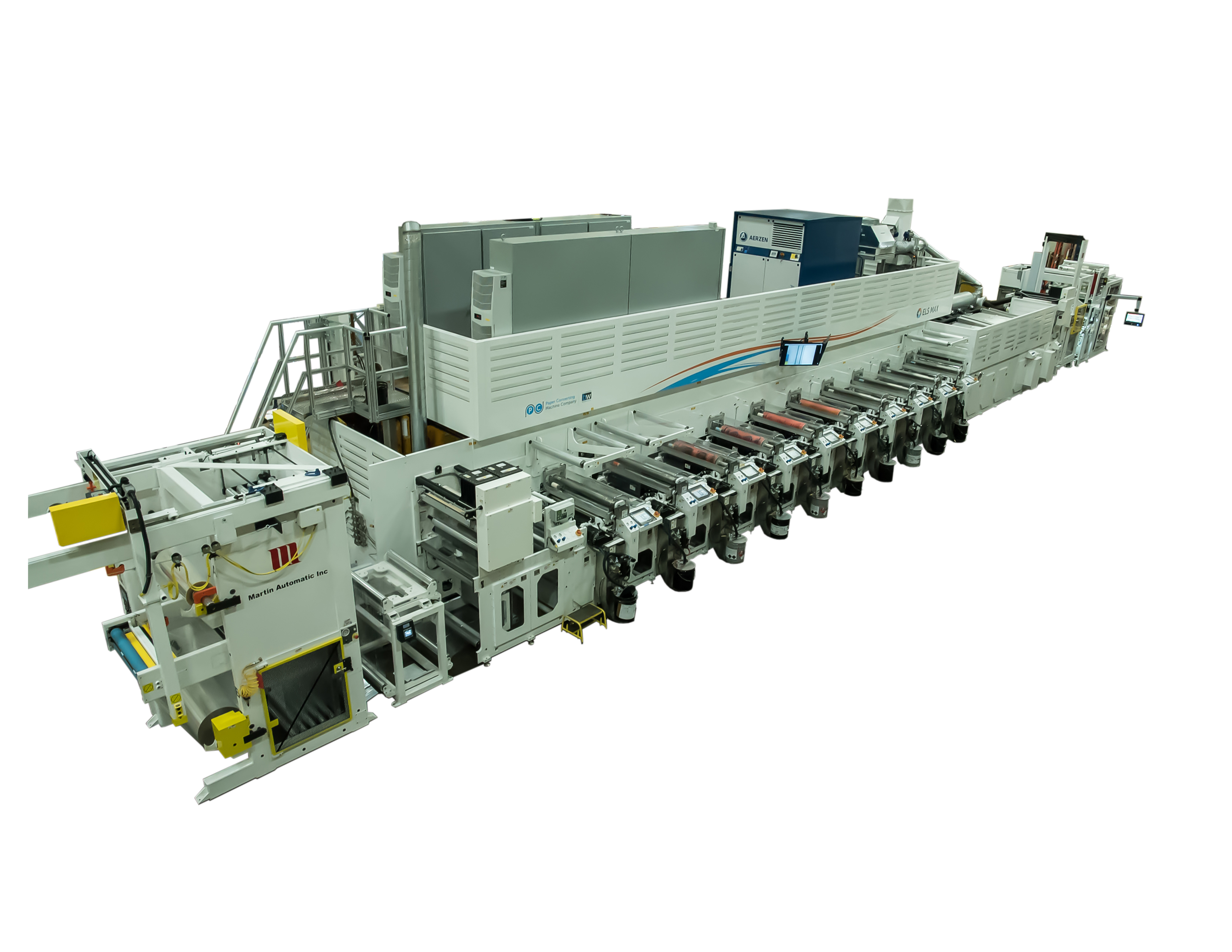 The ELS-MAX is rated to run solvent ink along with our standard water-based and UV inks and offers the ability to quickly change press parameters to make it run extremely efficient on many types of material.